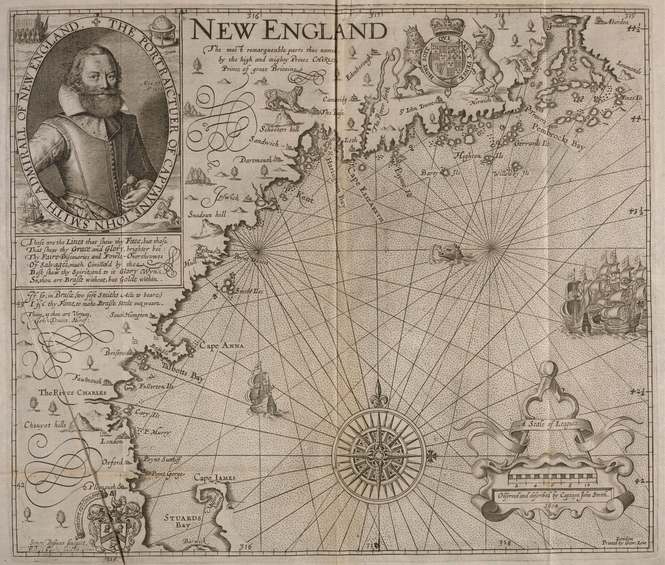 Map of New England from The Generall Historie of Virginia, New England, and the Summer Isles; with the names of the Adventurers, Planters, and Governours from their first beginning, Ano: 1584, to this present 1624. Engraver John Barra? STC 22790